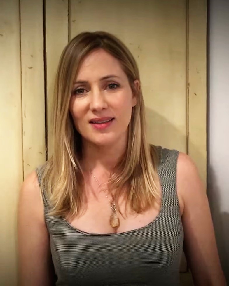 Behind the Curtain with Jessica Sonneborn Nerd Rage News® Behind the Curtain interviews Jessica Sonneborn